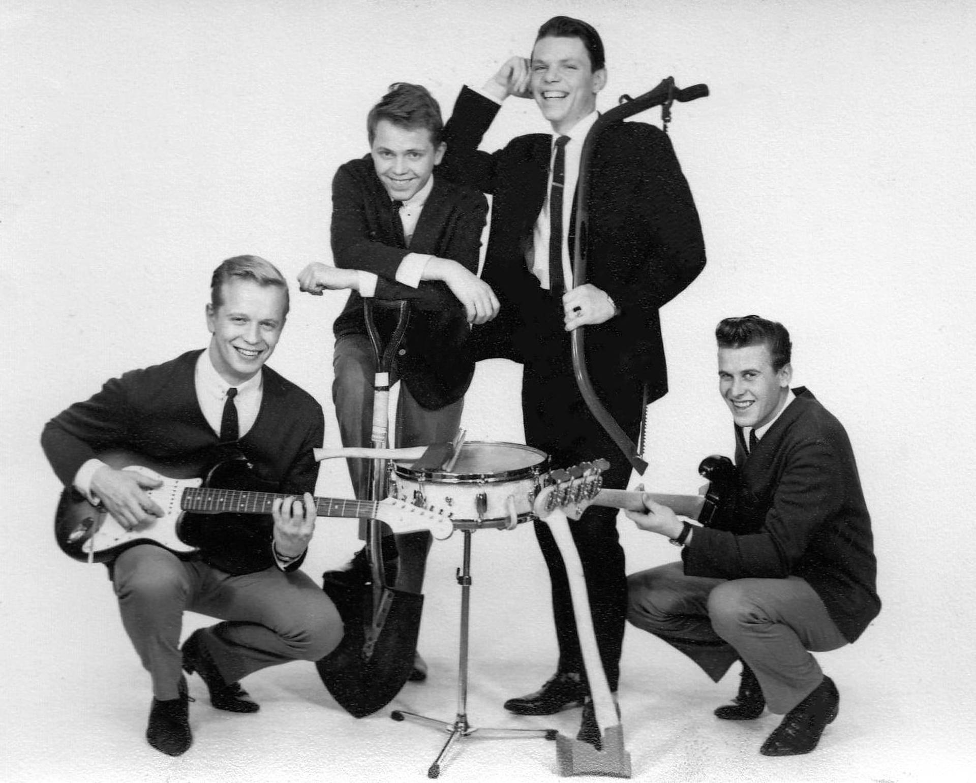 Publicity photograph of the Finnish rock group The Esquires.